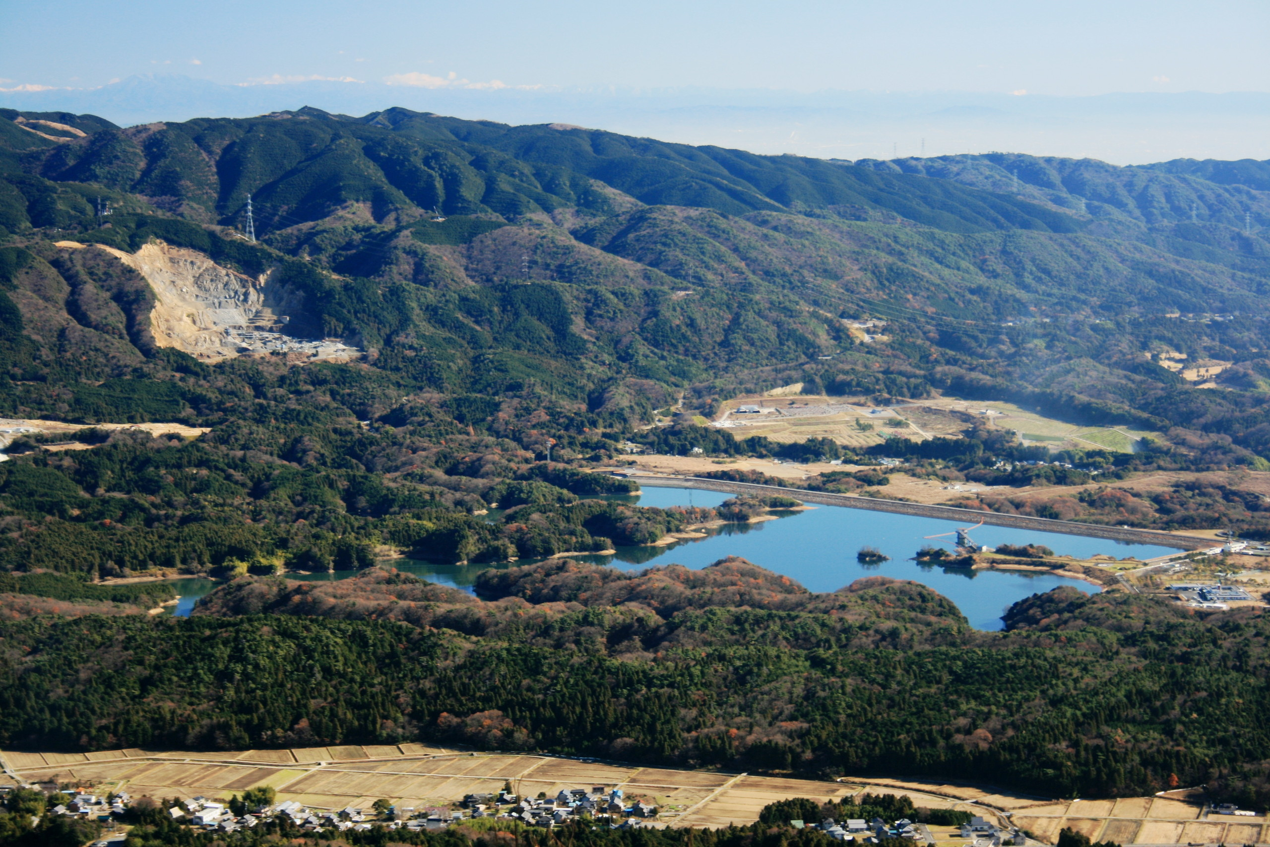 Nakazato Dam and Yōrō Mountains